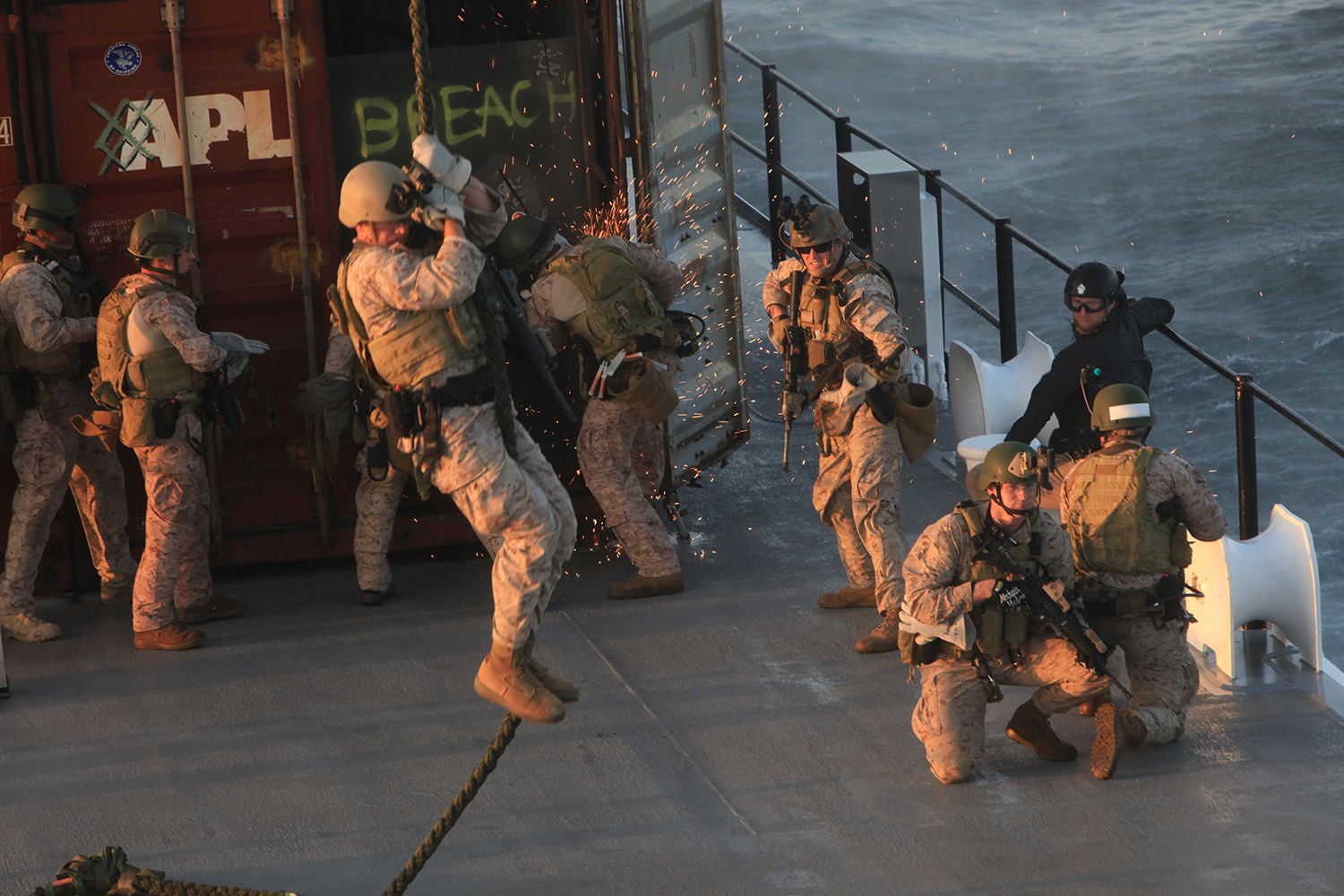 Marines with the 1st Marine Special Operations Battalion, U.S. Marine Corps Forces, Special Operations Command helocast from a CH-47 helicopter during Visit, Board, Search and Seizure (VBSS) training with the 160th Special Operations Aviation Regiment near Camp Pendleton, Calif.